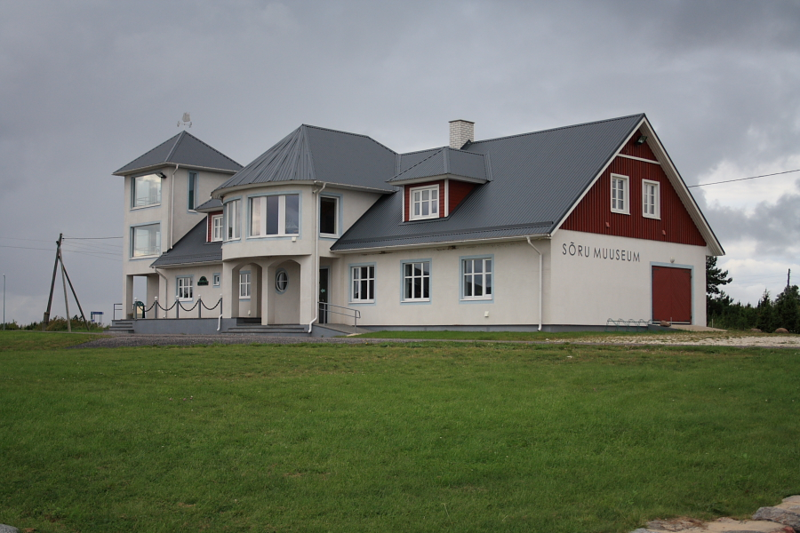 Sõru museum on Hiiumaa island in Estonia